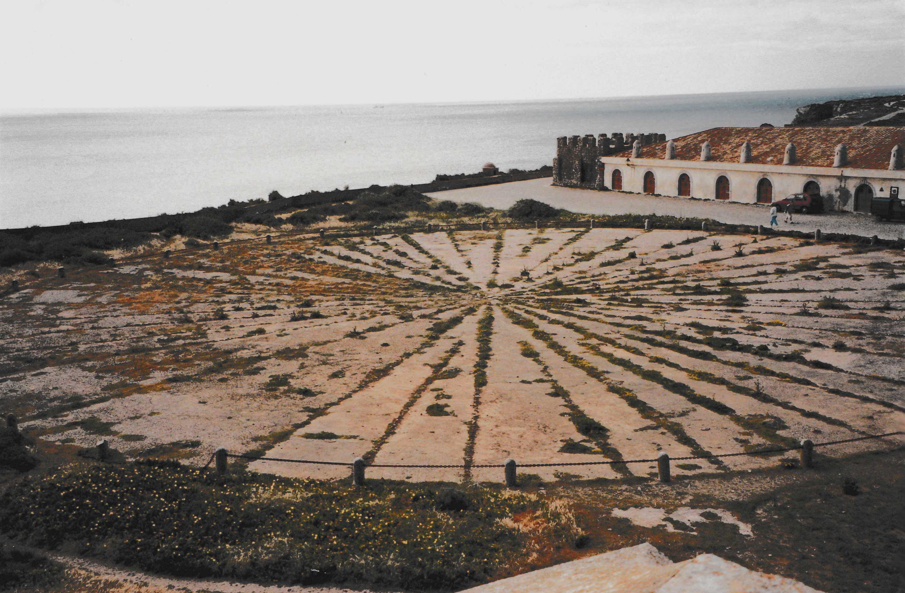 Fortaleza de Sagres, Algarve, Portugal. The plant shows remains of the seafarer school of „Henry the Navigator“ (1394-1460). The photo was taken in May 1996